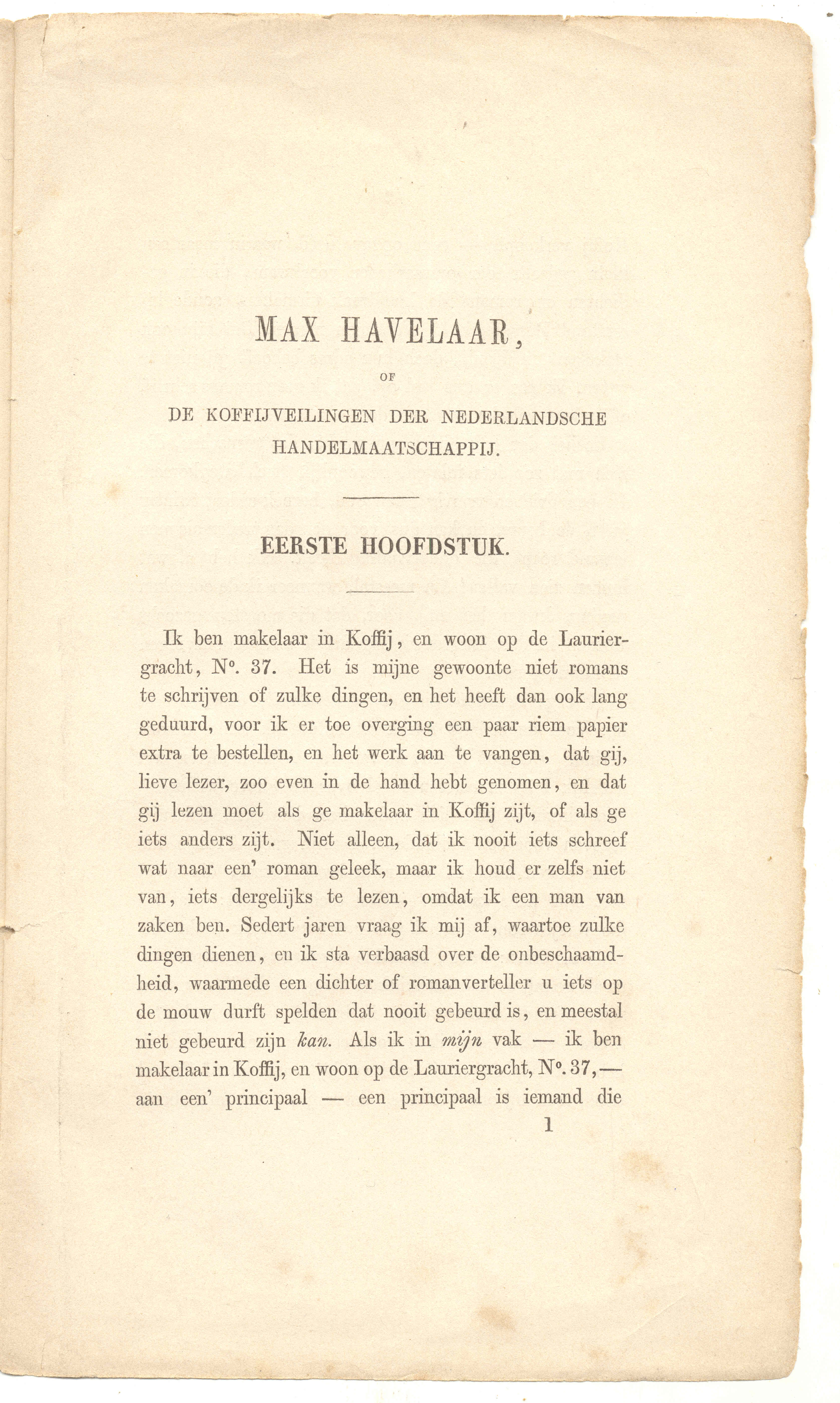 first page first Dutch edition Max Havelaar, J. de Ruyter, Amsterdam, 1860